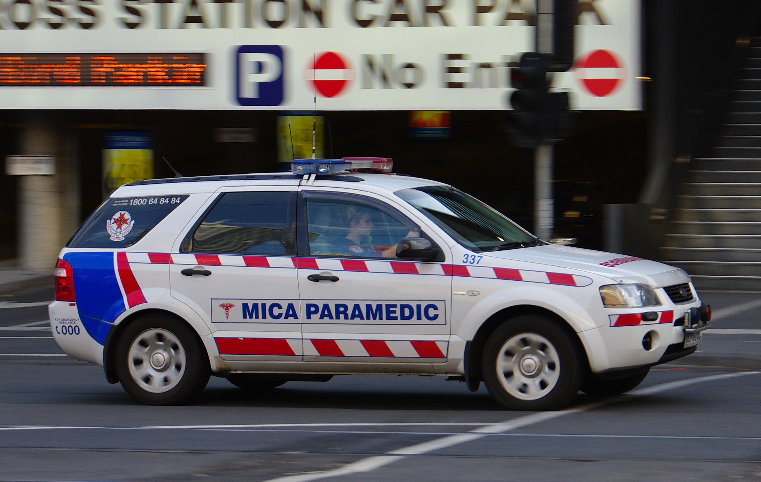 2004–2008 Ford Territory TX wagon, used by a Mobile Intensive Care Ambulance crew in Melbourne, Victoria, Australia.